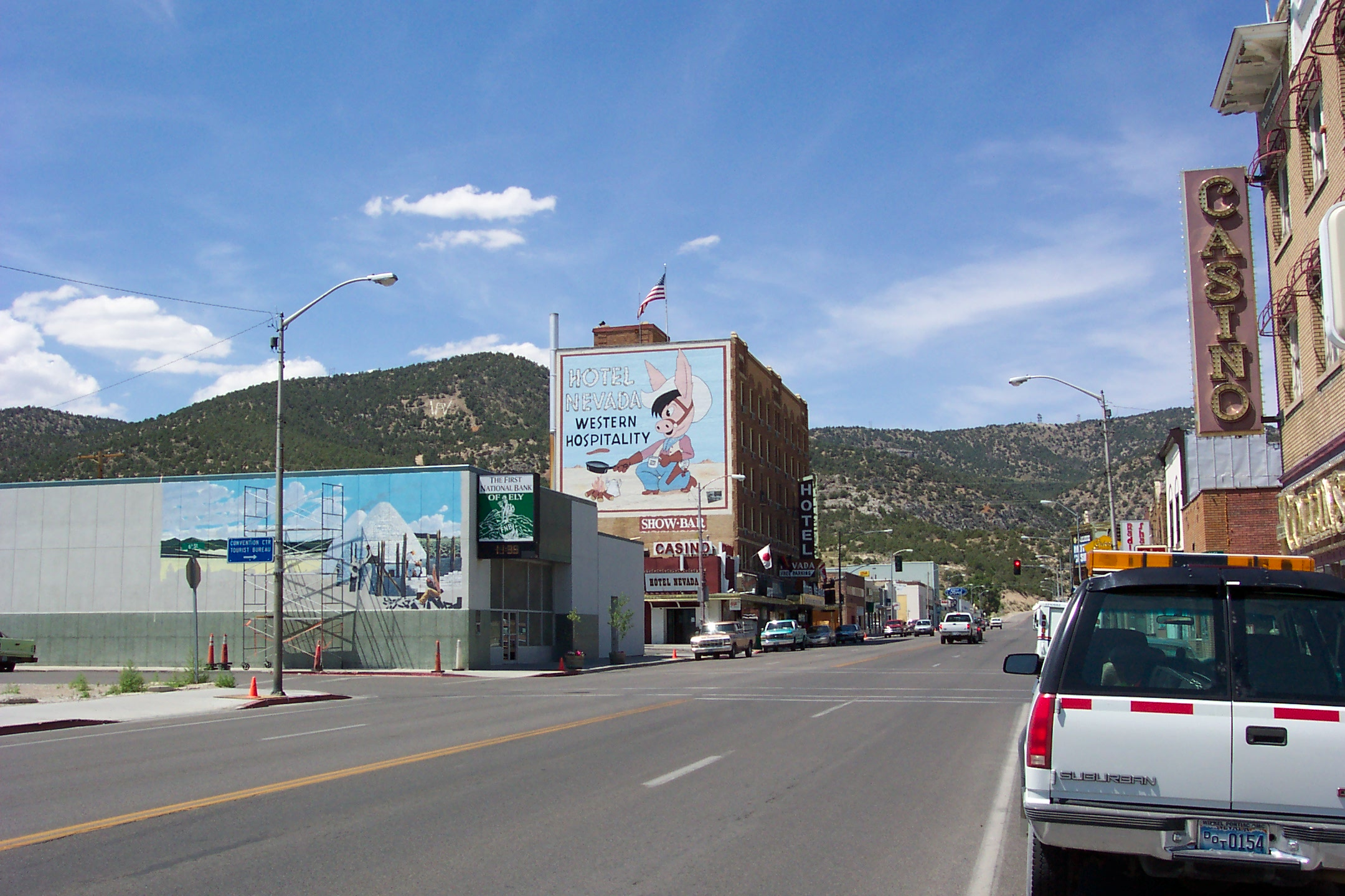 Looking west on Aultman Street (US 50) in downtown Ely, Nevada.